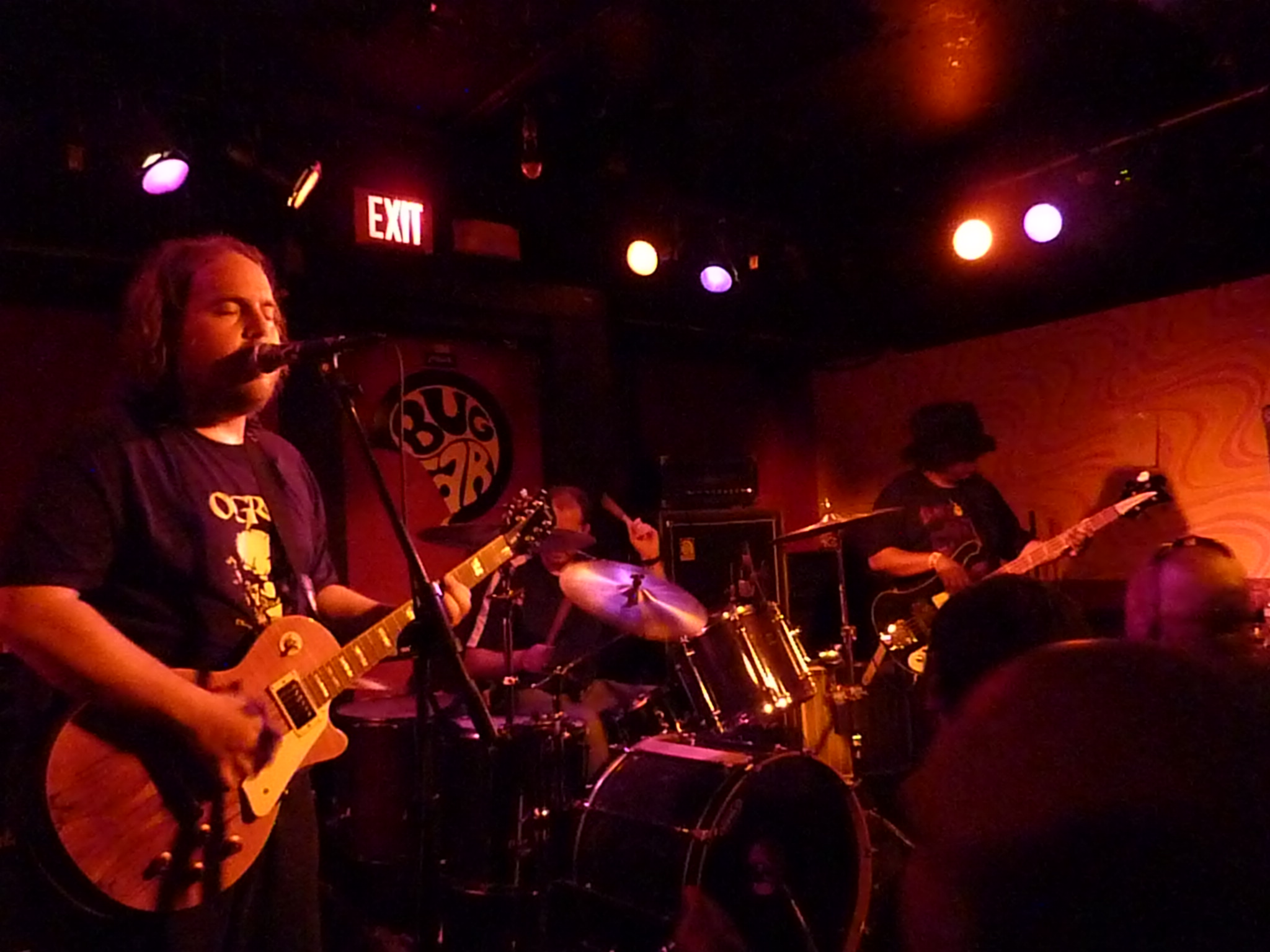 Revelation live in Rochester New York